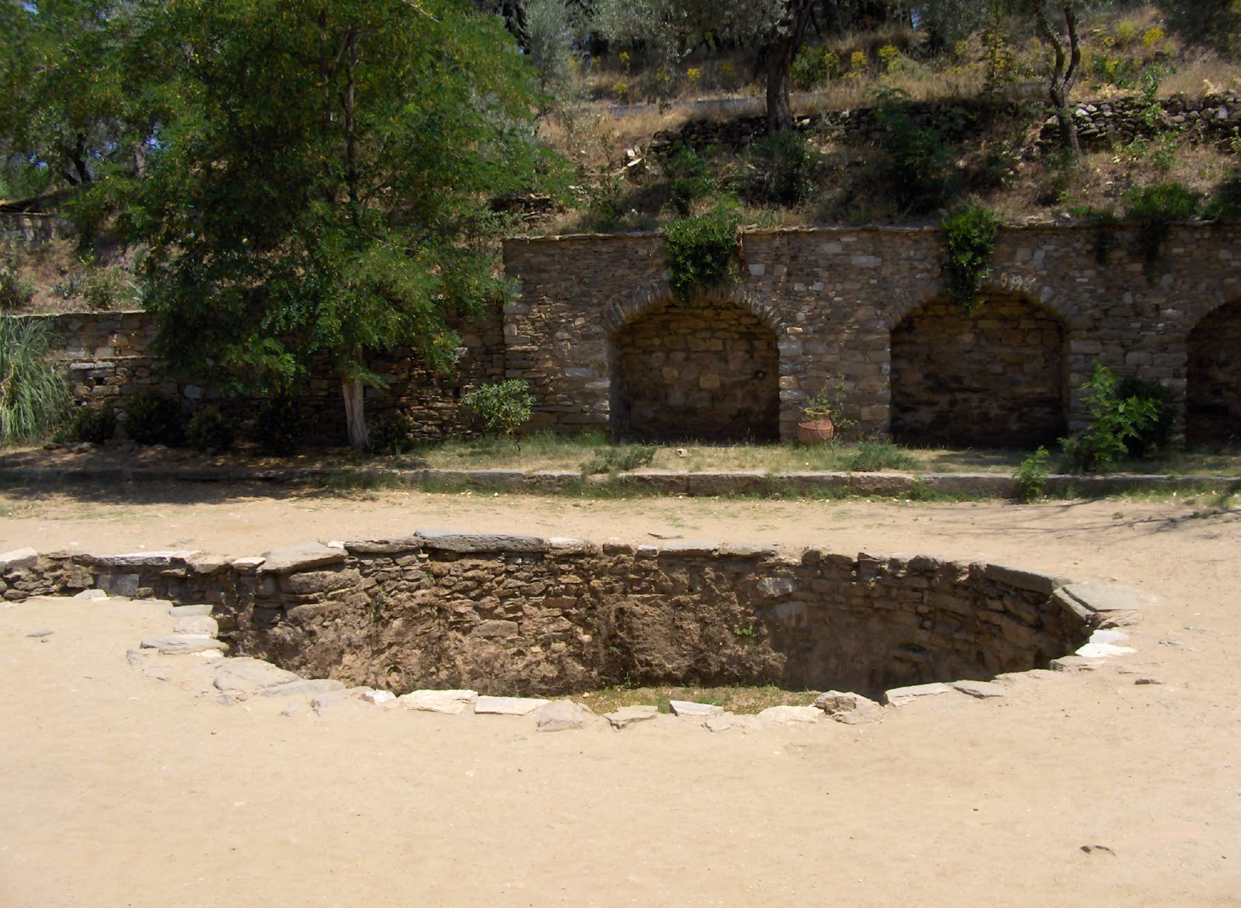 The Christian shrine, so called "House of Virgin Mary", at Ephesos, Turkey. July 2005. Photo Magdalena Siudy (Freta), June 2005.